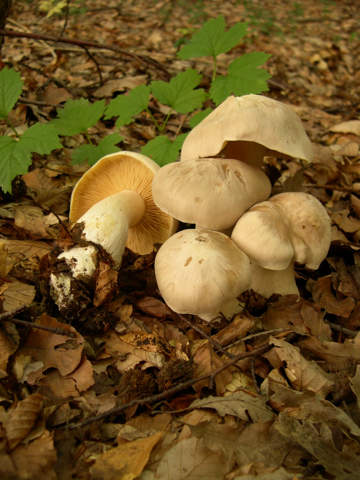 Entoloma sinuatum or Entoloma lividum. September 2005 - Piacenza's mountains - Italy by Archenzo